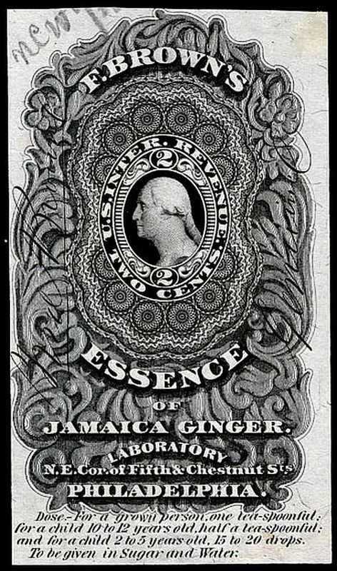 Image of Private die proprietary revenue stamp, 2c, 1862